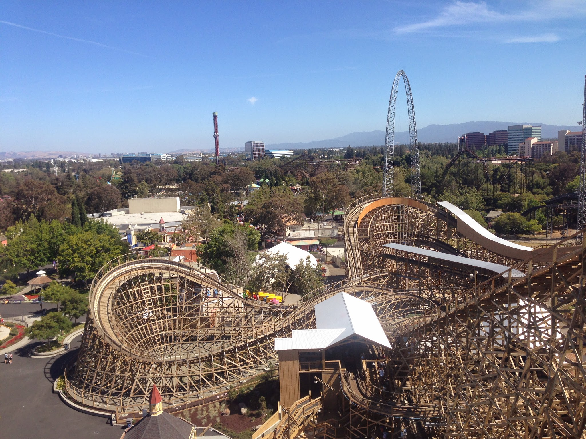 California's Great America in Santa Clara, California